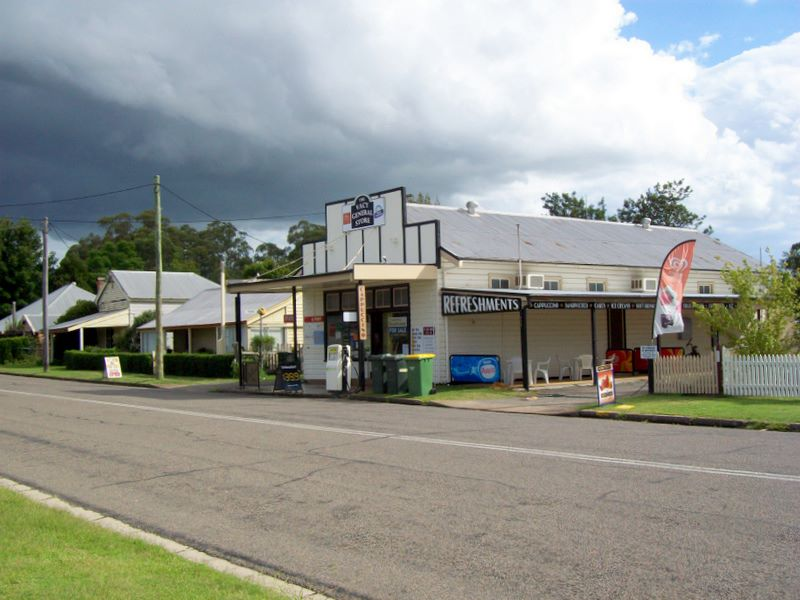 Vacy Main Street, NSW